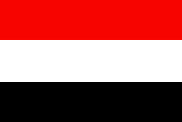 Arab Liberation flag, used in Egypt since 1952 for the first time in history [1]